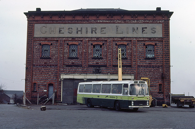 Warrington Central Goods Depot. Built by the Cheshire Lines Committee in the 1870's (the exact date is unreadable in the photo), this building now forms part of a major housing development. The Crosville Bristol RE was just visiting as part of a rail enthusiasts tour of the area.